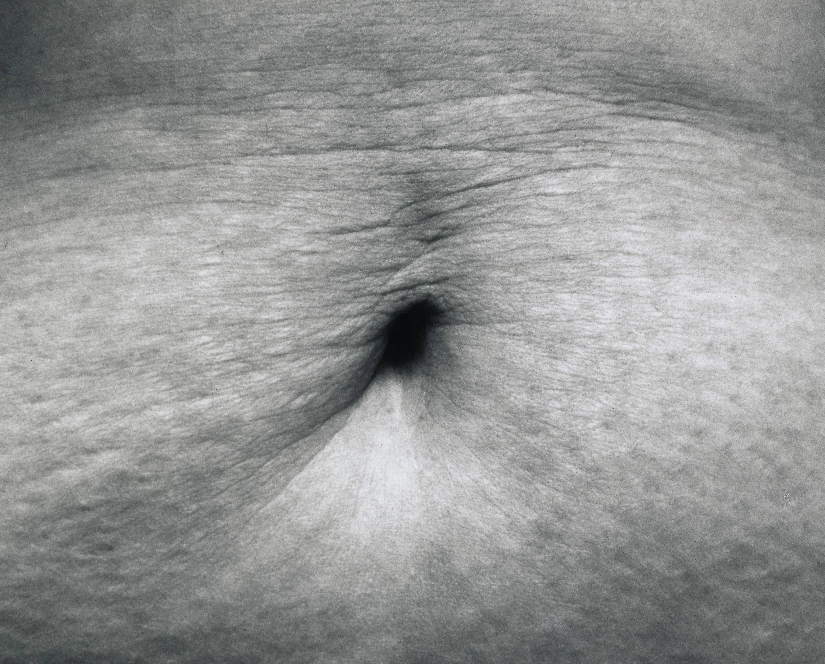 Mother Of Twins by Ithaka Darin Pappas from the project entitled Umbilicus created in Tokyo 1992.